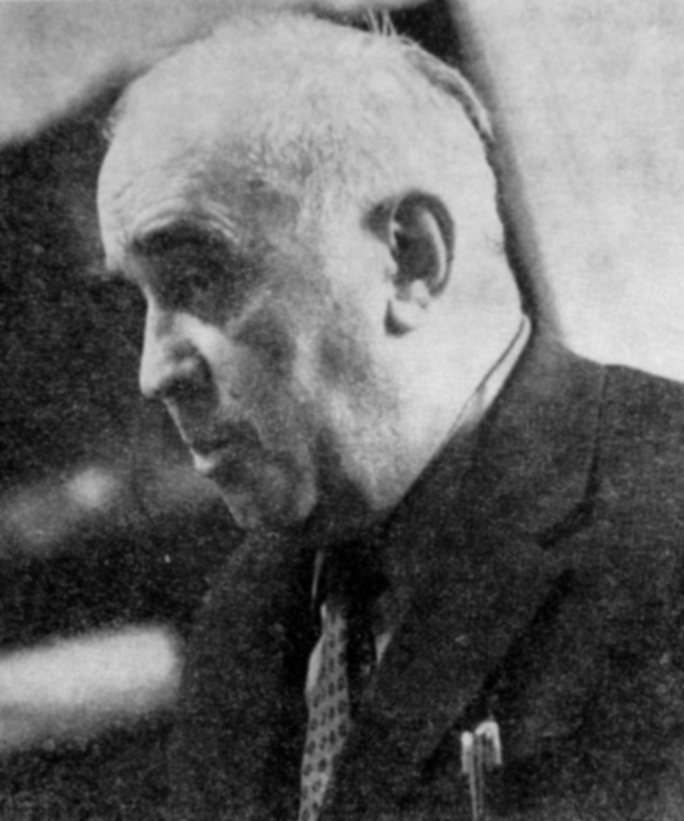 Kazimierz Wyka (1910-1975) - a Polish essayist, historian of literature and literary critic.